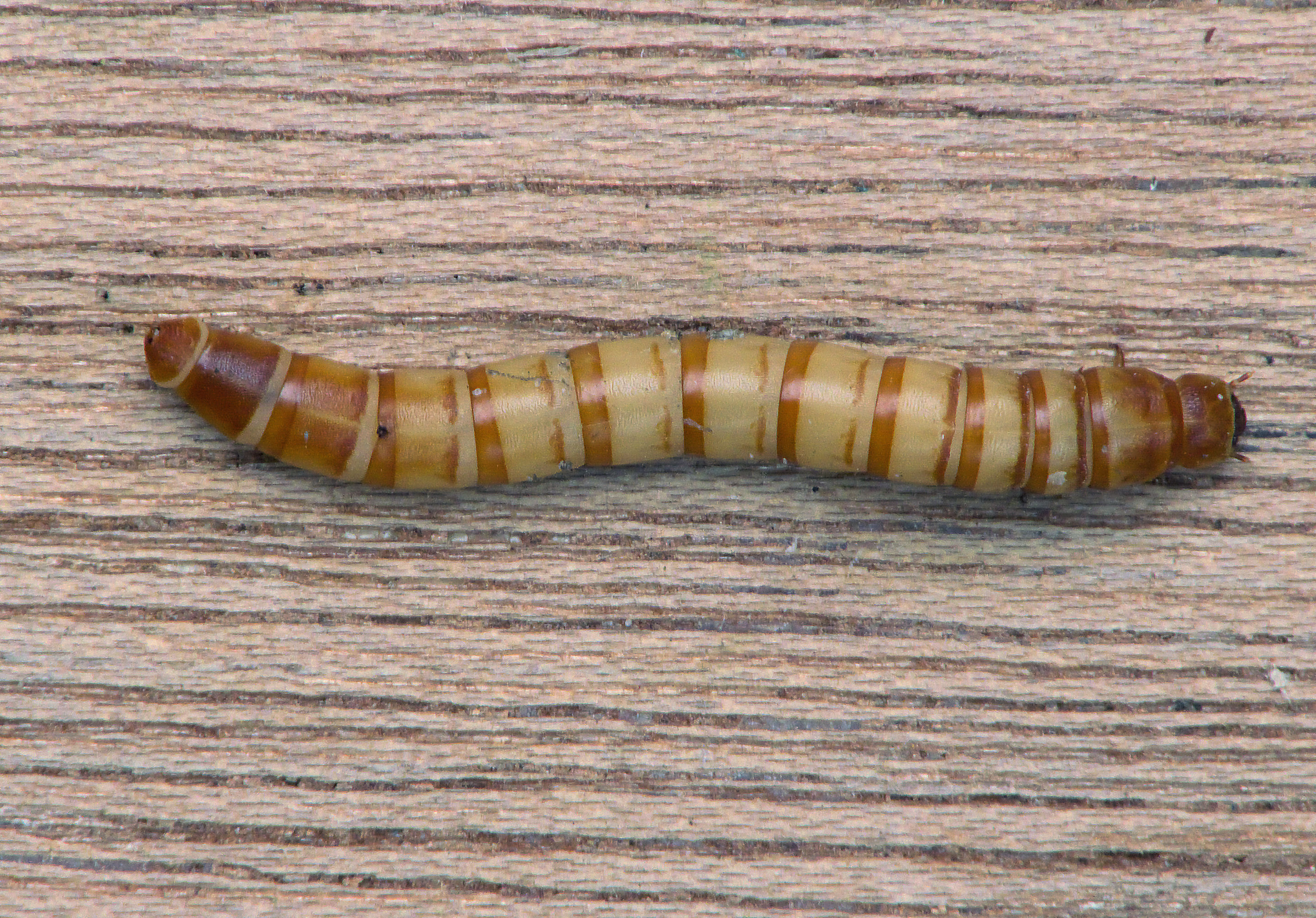 Tenebrio molitor